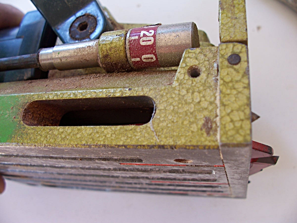 Biscuit jointers for Lamellos.